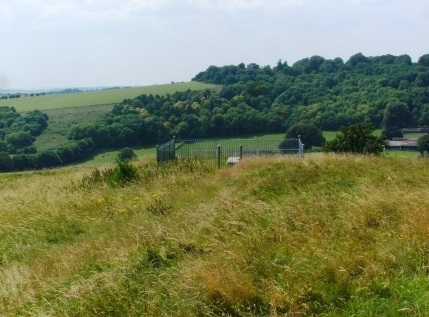 Beacon Hill, Burghclere, Hampshire: Tomb of George Herbert, 5th Earl of Carnarvon (1866–1923)